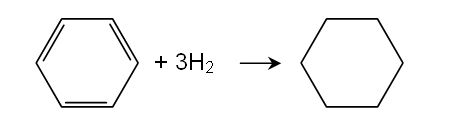 benzene reacts with hydrogen